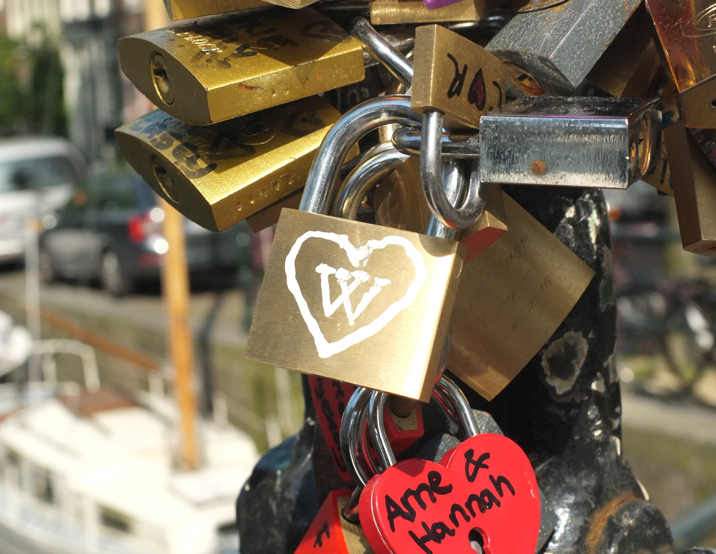 Love padlocks on Staalmeestersbrug in Amsterdam, Netherlands